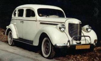 en:1938 Chrysler Royal, C18, four door sedan version.